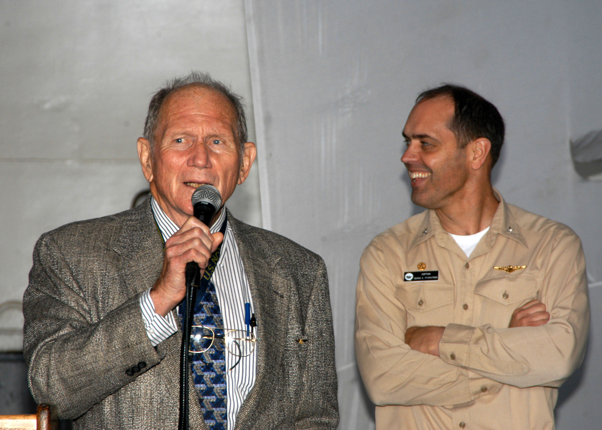 Atlantic Ocean (June 6, 2005) - Rear Adm. Earl P Yates (Ret.) addresses to the crew of USS John F Kennedy (CV 67) during a frocking ceremony. Rear Adm. Yates talked about his experience as Kennedy's first Commanding Officer. Homeported in Mayport Fla., the conventionally powered aircraft carrier USS John F Kennedy (CV 67) is returning after participating in "Fleet Week 2005.” U.S. Navy photo by Photographer’s Mate 3rd Class Joshua Karsten (RELEASED)